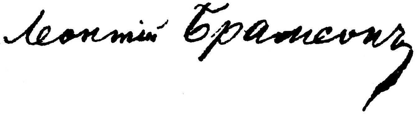 A signature of Leontiy Bramson, a member of the First Russian State Duma